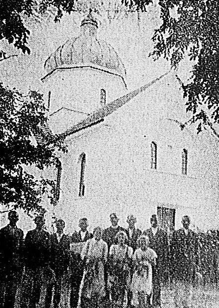 Ukrainian Greek Catholic Church in the village of Devetina.